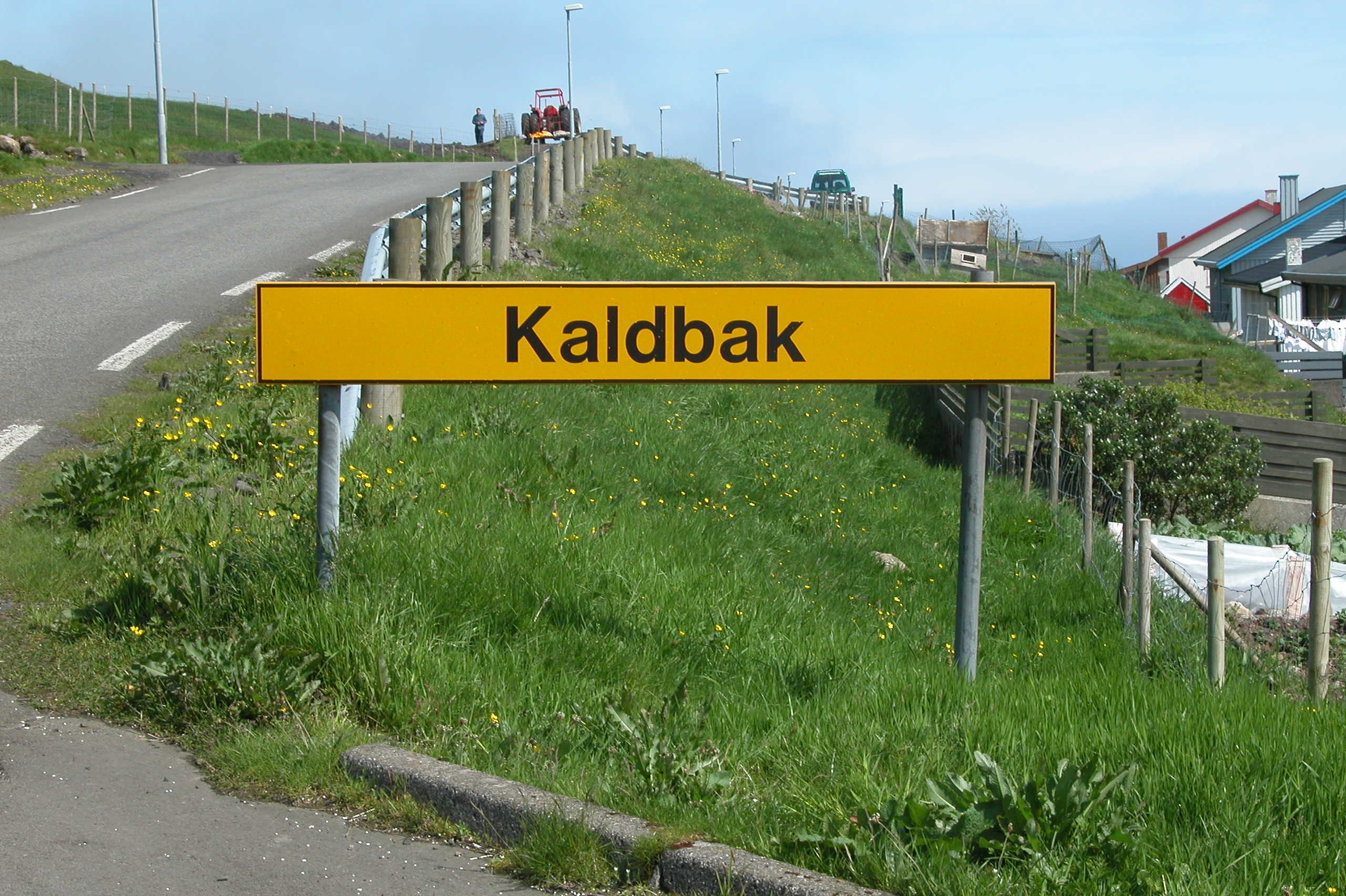 Kaldbak on Streymoy, Faroe Islands